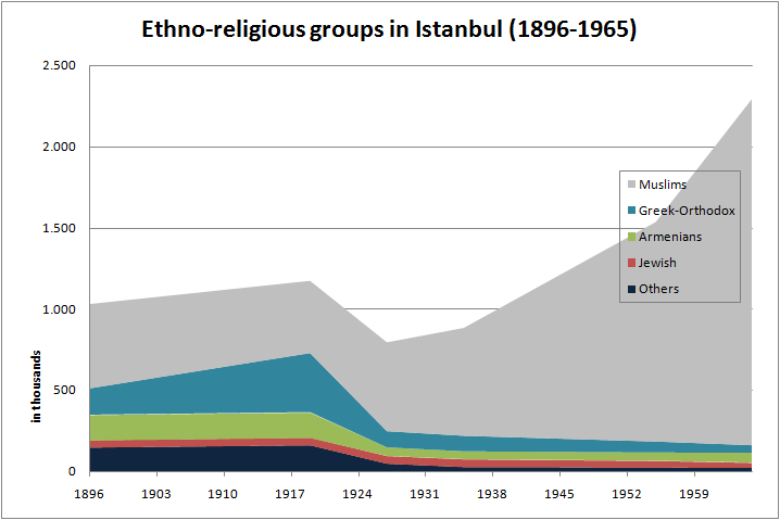 Ethno-religious groups in Istanbul (former Constantinople) 1896-1965